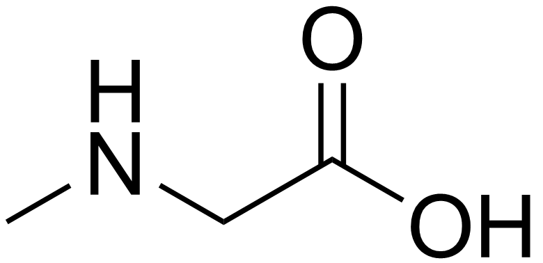 chemical structure of sarcosine